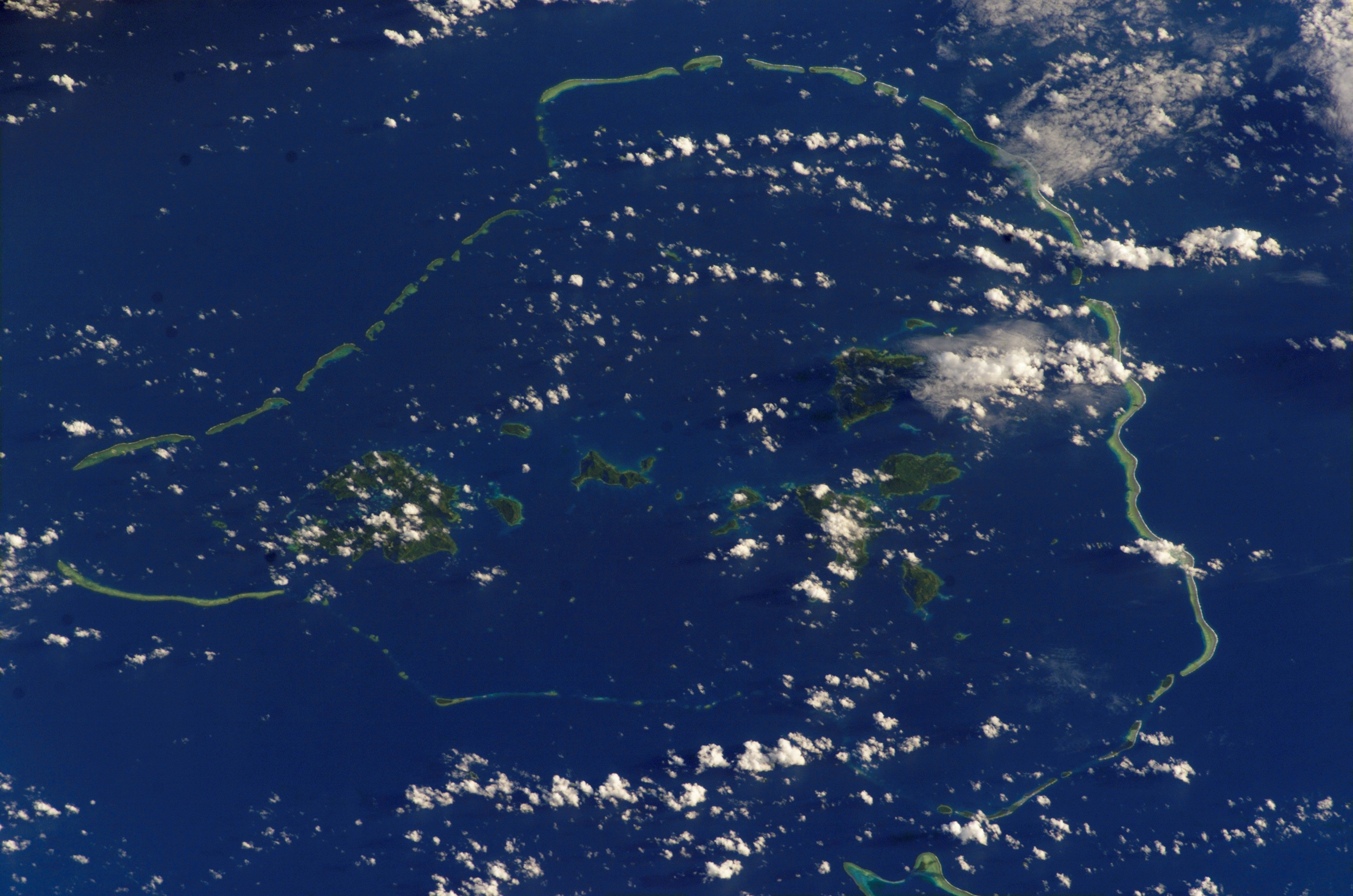 A satellite image of the Chuuk Islands, taken from the International Space Station. Mission ISS004, roll E, frame 9210. This image has been colour-adjusted to make the islands themselves stand out more.